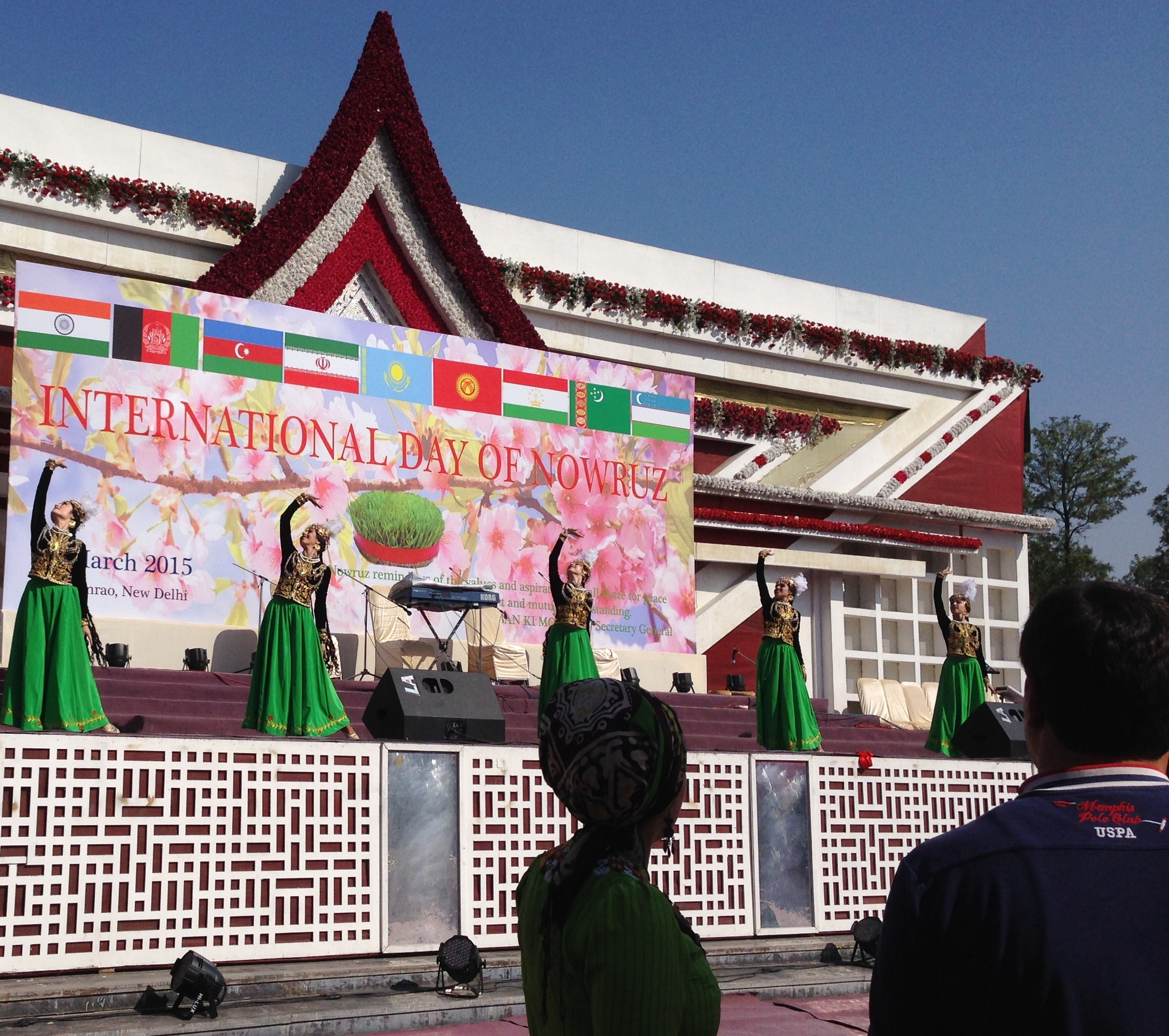 navrouz festival